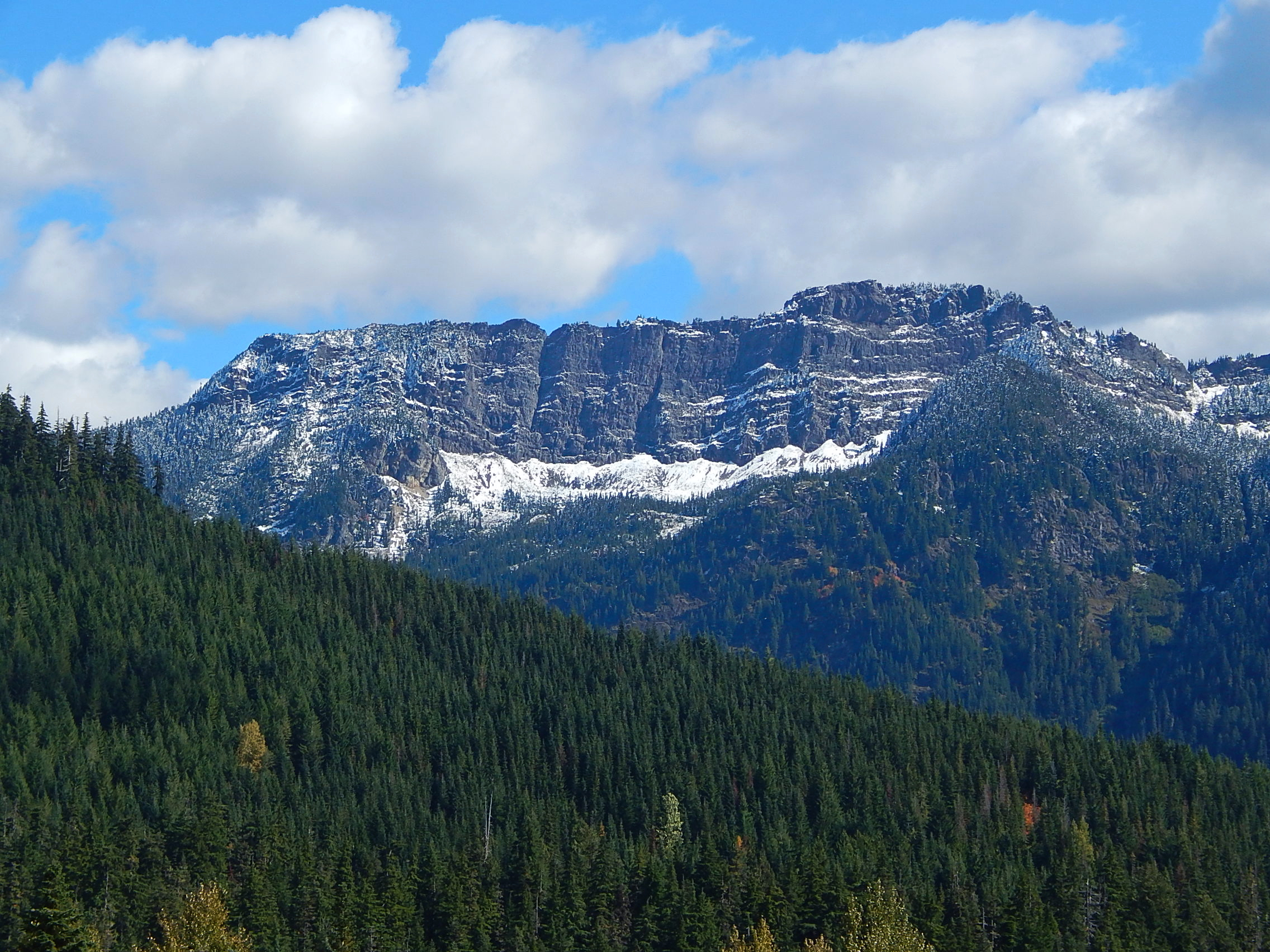 Rampart Ridge's west aspect seen from Snoqualmie Pass